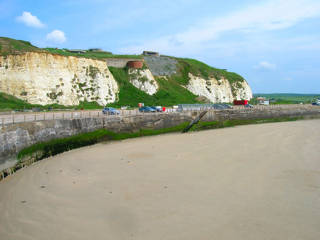 Beach, Newhaven Harbour The breakwater prevents the build up of shingle hence the clear sandy beach that appears at low tide between the breakwater and promenade. Beyond that is the car park with Castle Hill and the buildings of Newhaven Fort providing the backdrop.